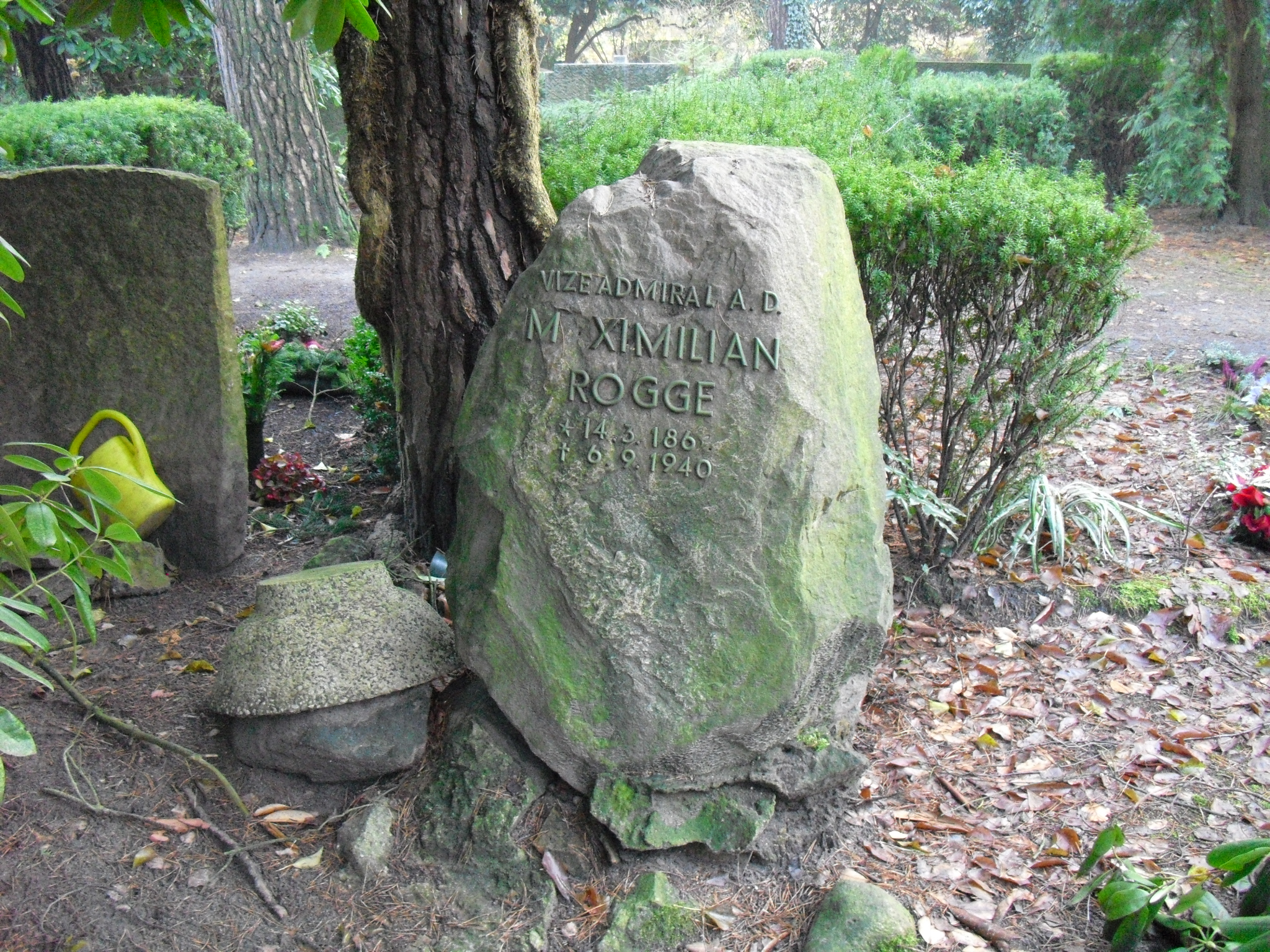 Grave of German Vizeadmiral Maximilian Rogge at Waldfriedhof Kleinmachnow, (Kleinmachnow near Berlin)